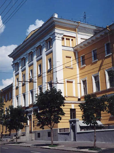 A photo of a building in Kyiv where the First Gymnasium once used to be